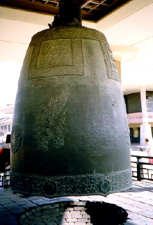 Bell of King Seongdeok. Sacred bell of King Seongdeok the Great, Gyeongju National Museum, Gyeongju, South Korea Taken myself.